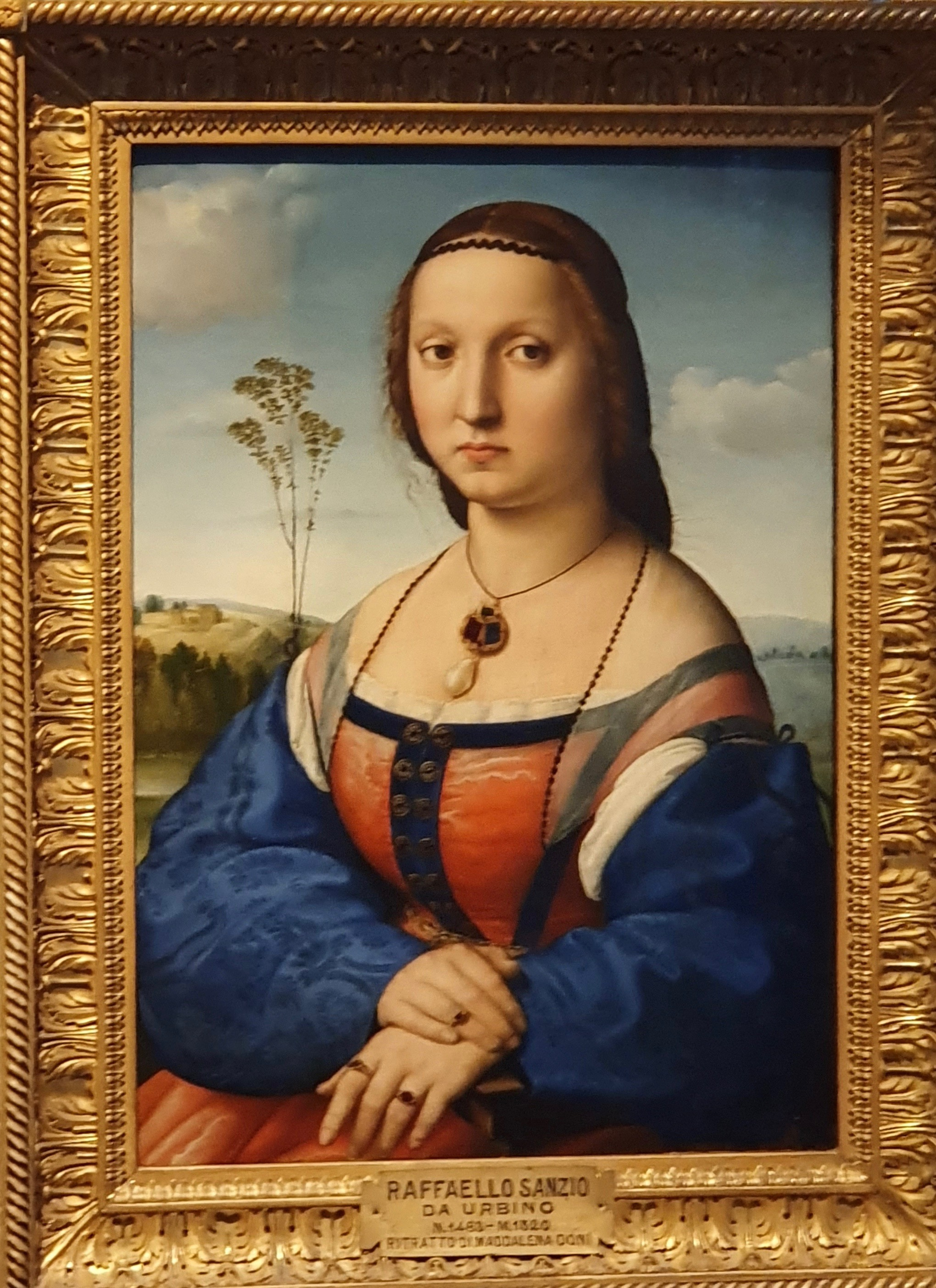 Magdalena Strozzi's portrait paintings by Raffaello Sanzio at at Uffizi Gallery